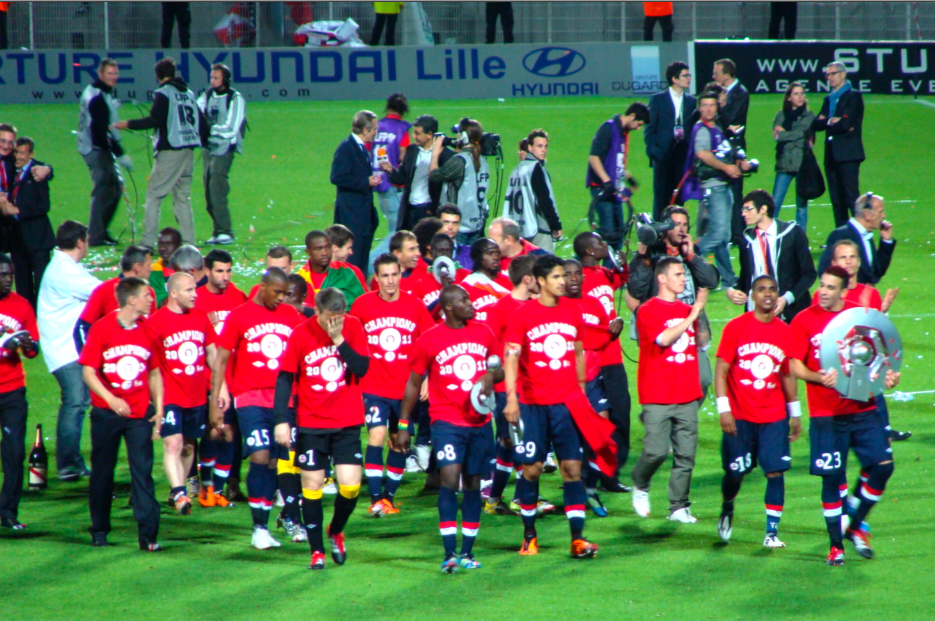 LOSC Ligue 1 winner 2011